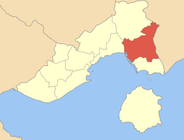 Locator map of Chrysoupoli municipality (Δήμος Χρυσούπολης) in Kavala prefecture (Νομός Καβάλας) in Greece.